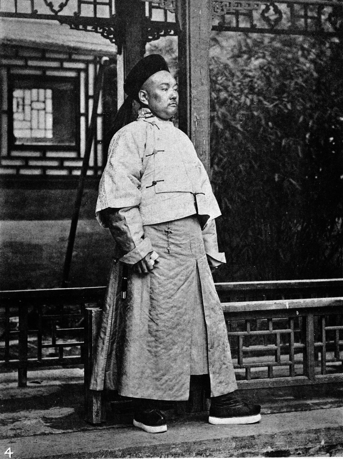 John Thomson: Cheng-lin is the youngest member of the Foreign Board, being not yet more than forty-five. Three years ago he, occupied for a short time, the post of superintendent of trade, vacated by Chung-hau during his mission to France.